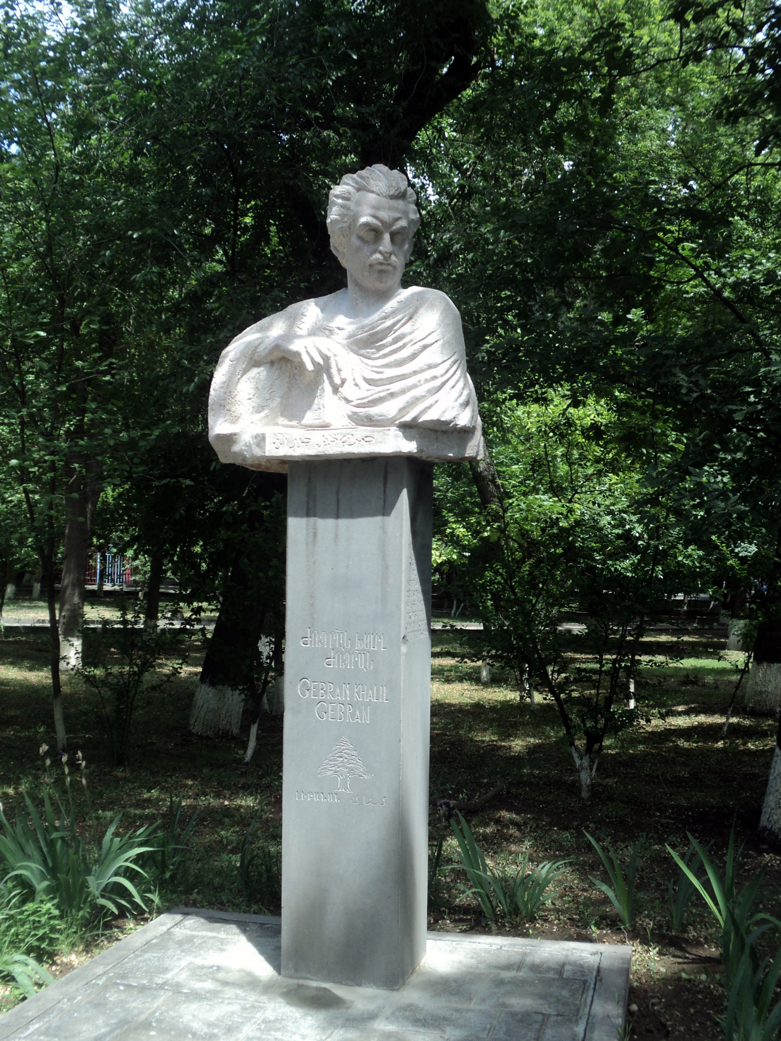 Sculptor Levon Tokmajian